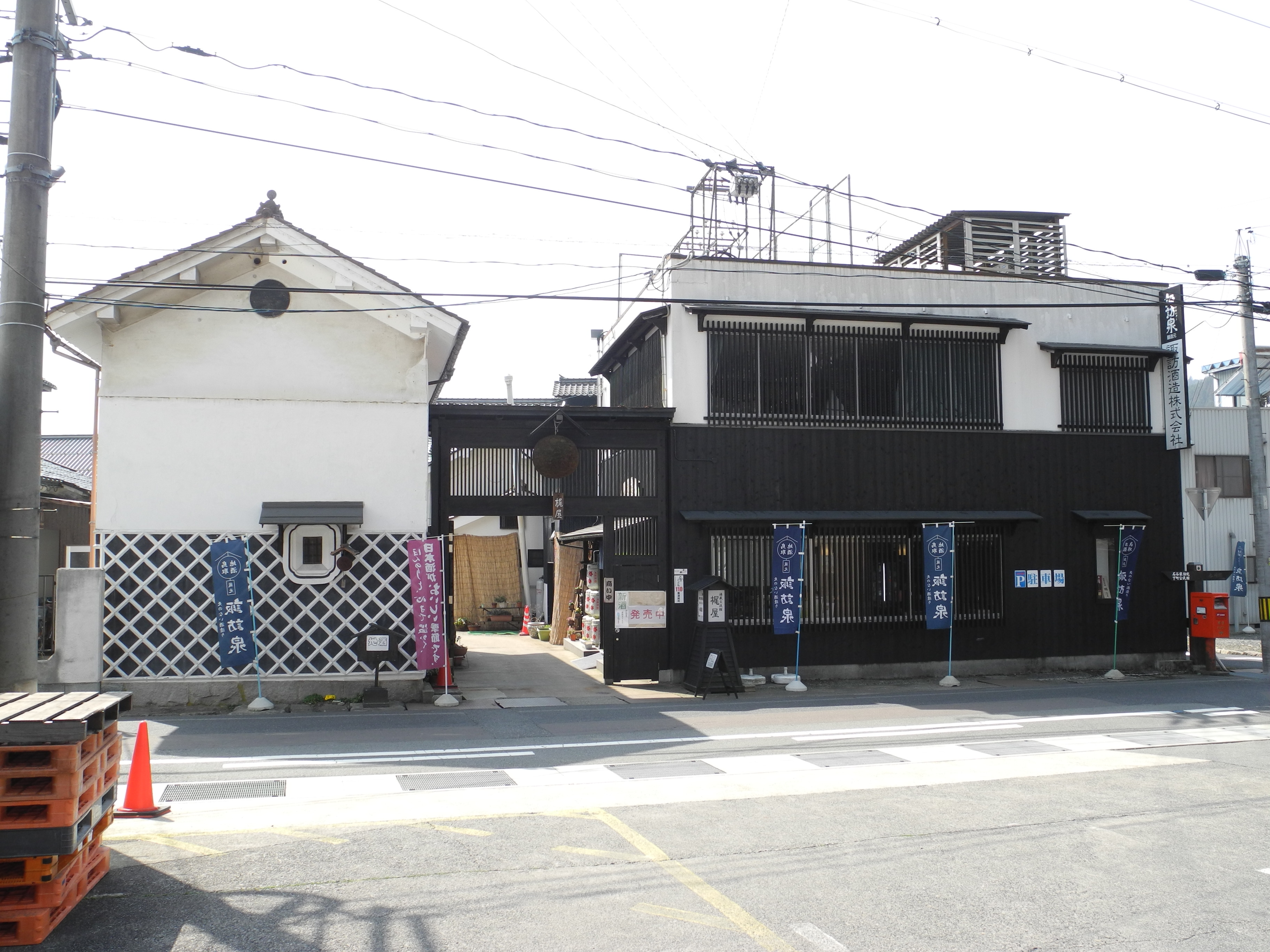 Suwa Syuzou (Sake brewery), Chizu, Tottori, Japan